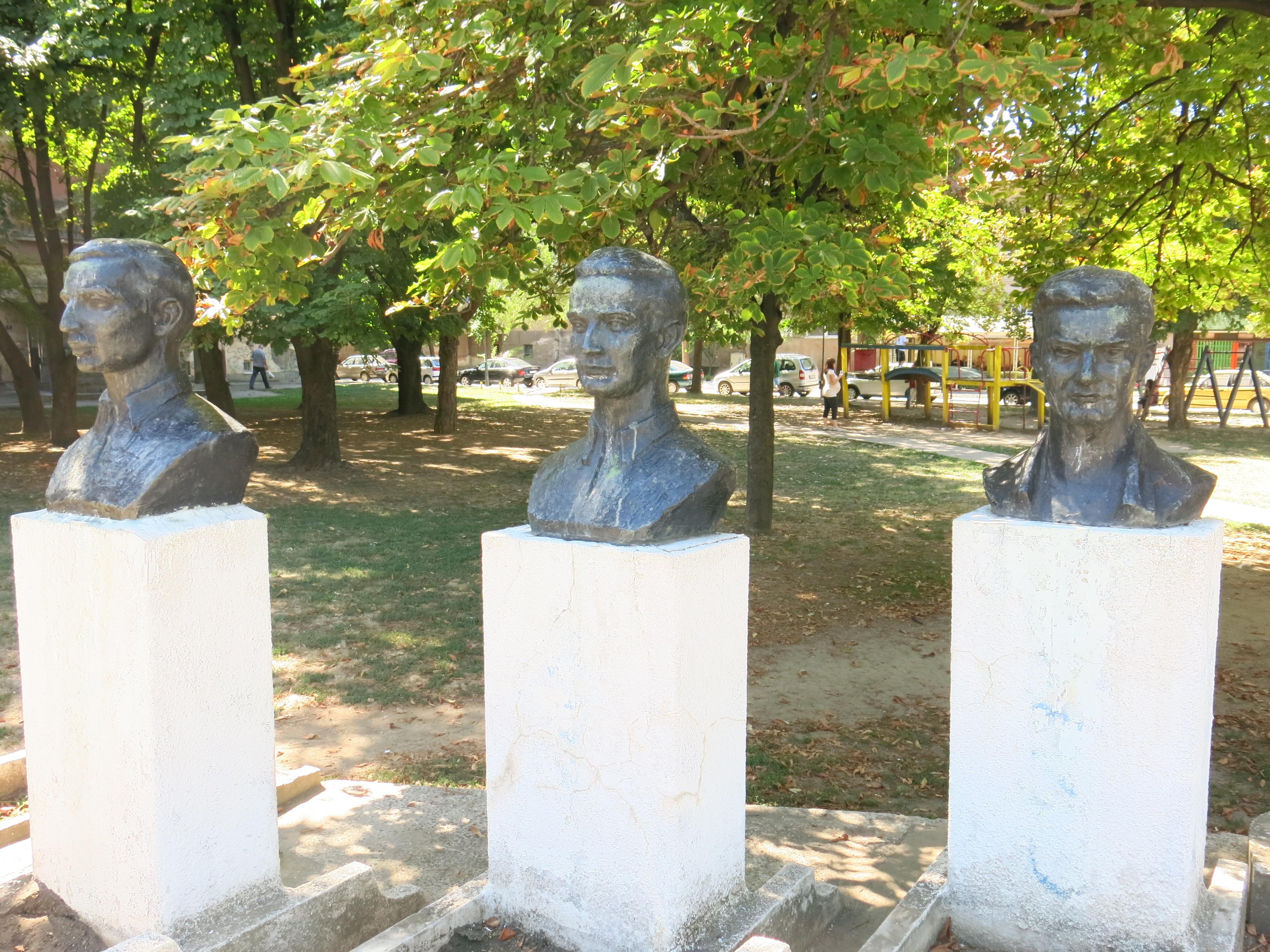 Smederevo, Memorial park of three heroes